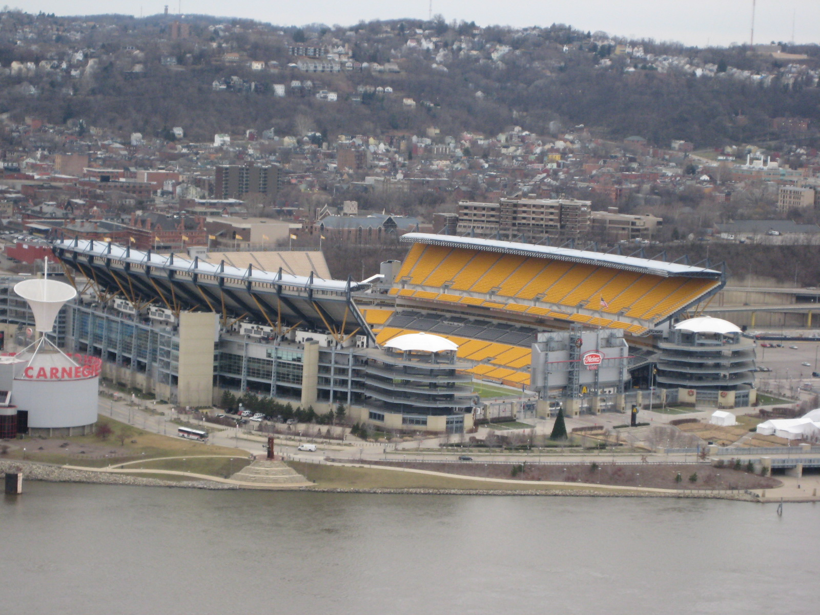 Heinz Field, home of the Pittsburgh Steelers, in Pittsburgh, Pennsylvania